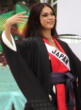 The winner of Miss Universe 2007, Riyo Mori, in Mexico City